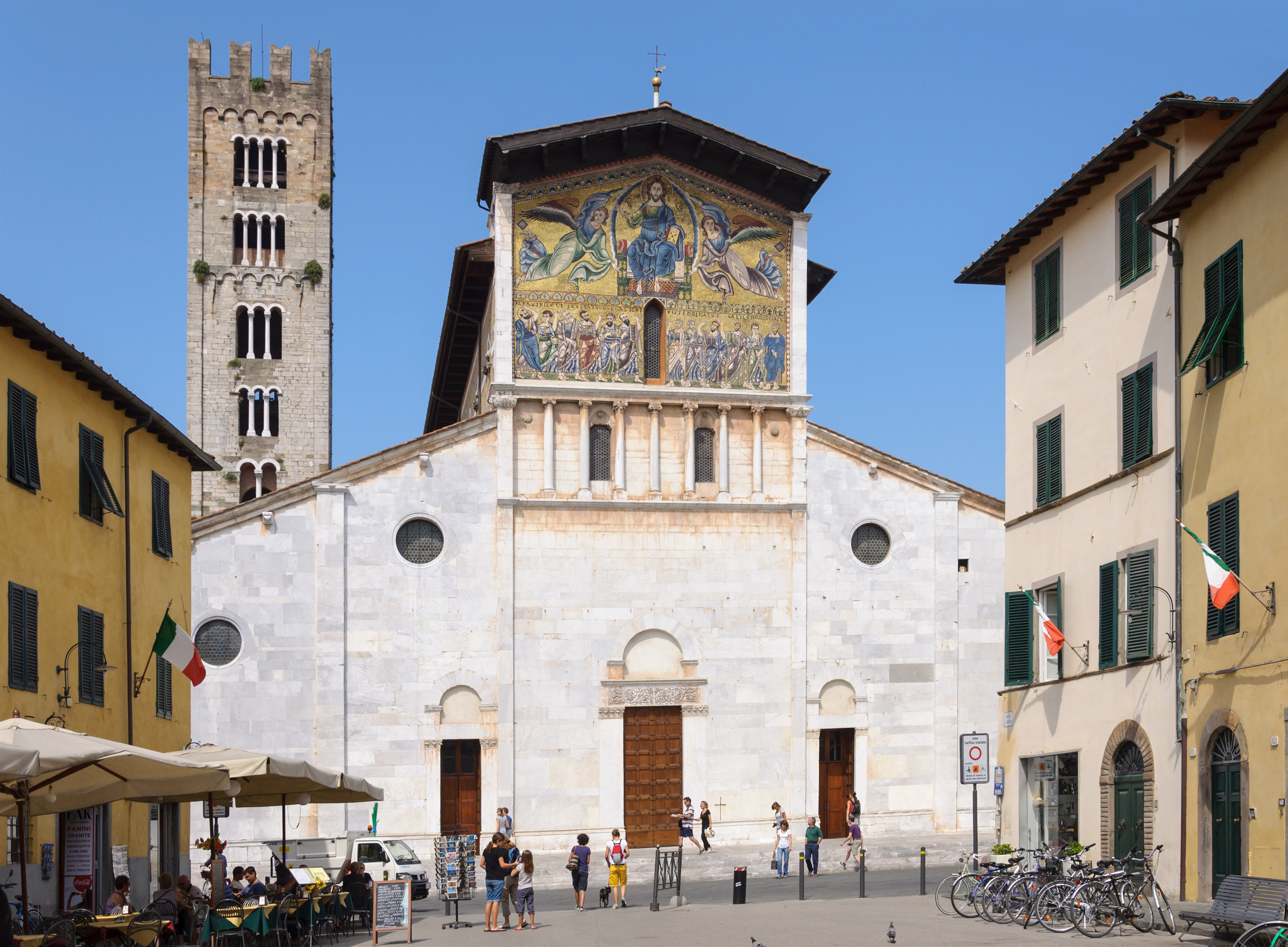 The Basilica of San Frediano in Lucca, Tuscany, Italy.